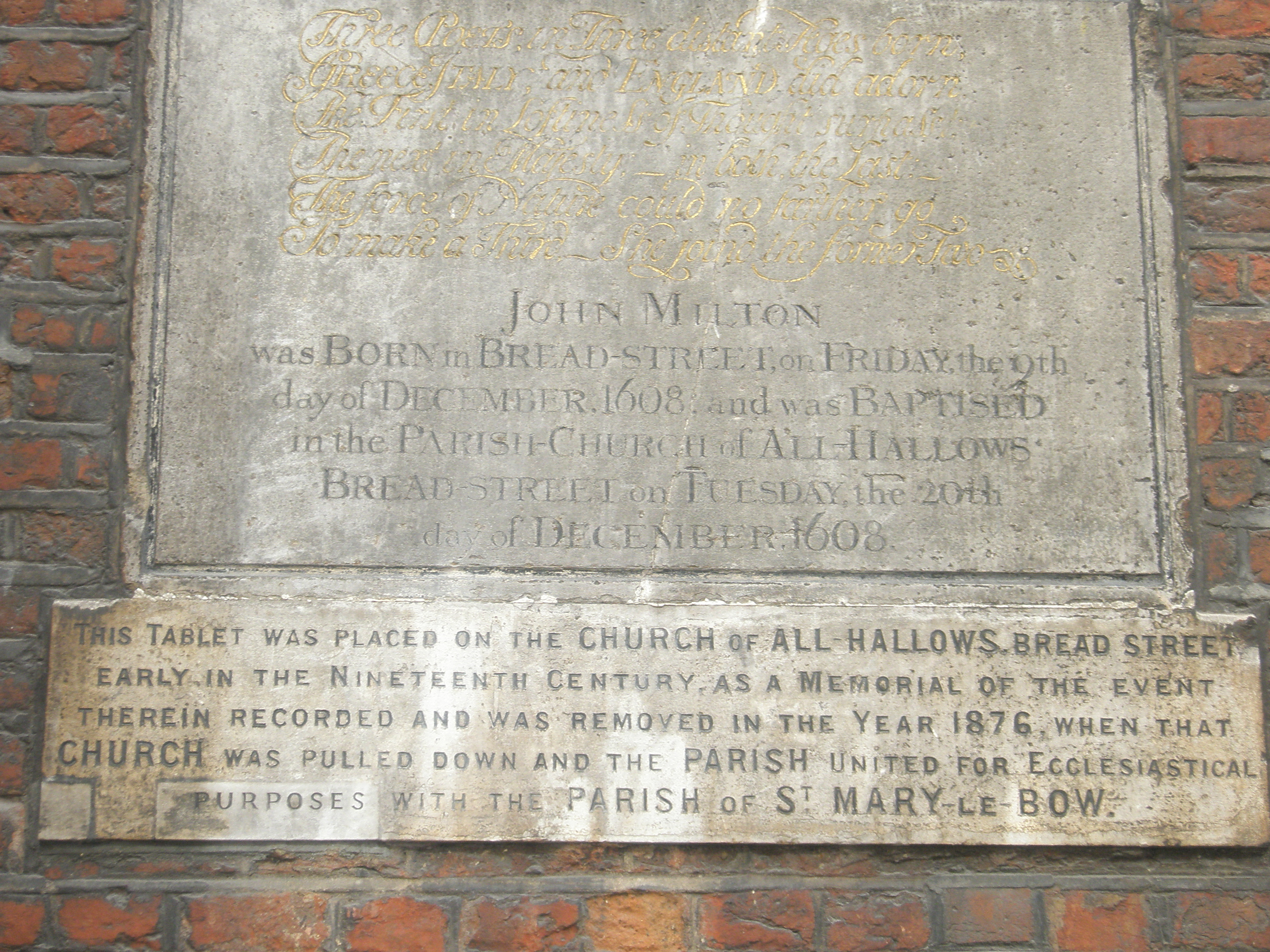 Plaque outside St Mary Le Bow